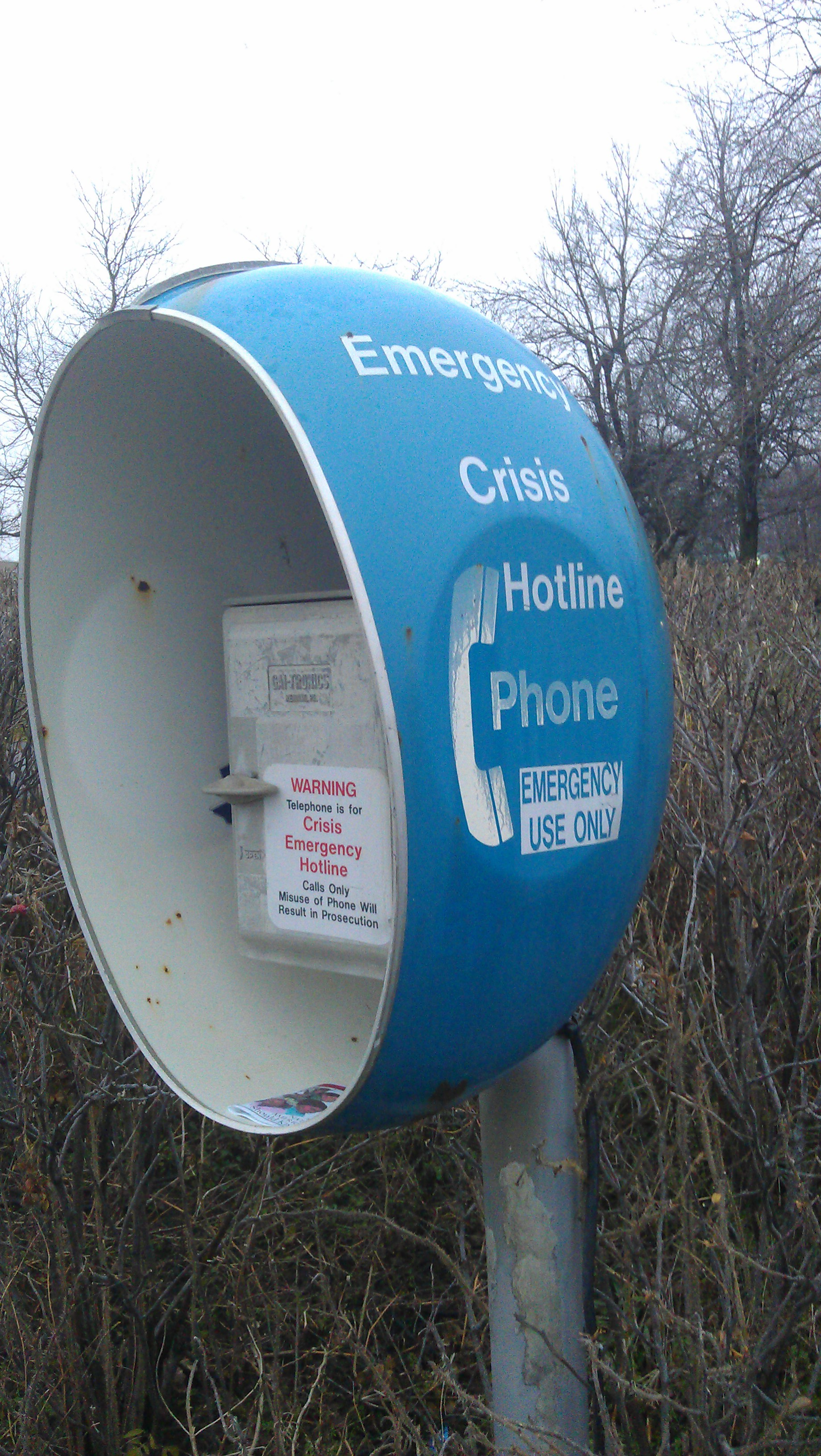 niagara falls emergency crisis hotline phone